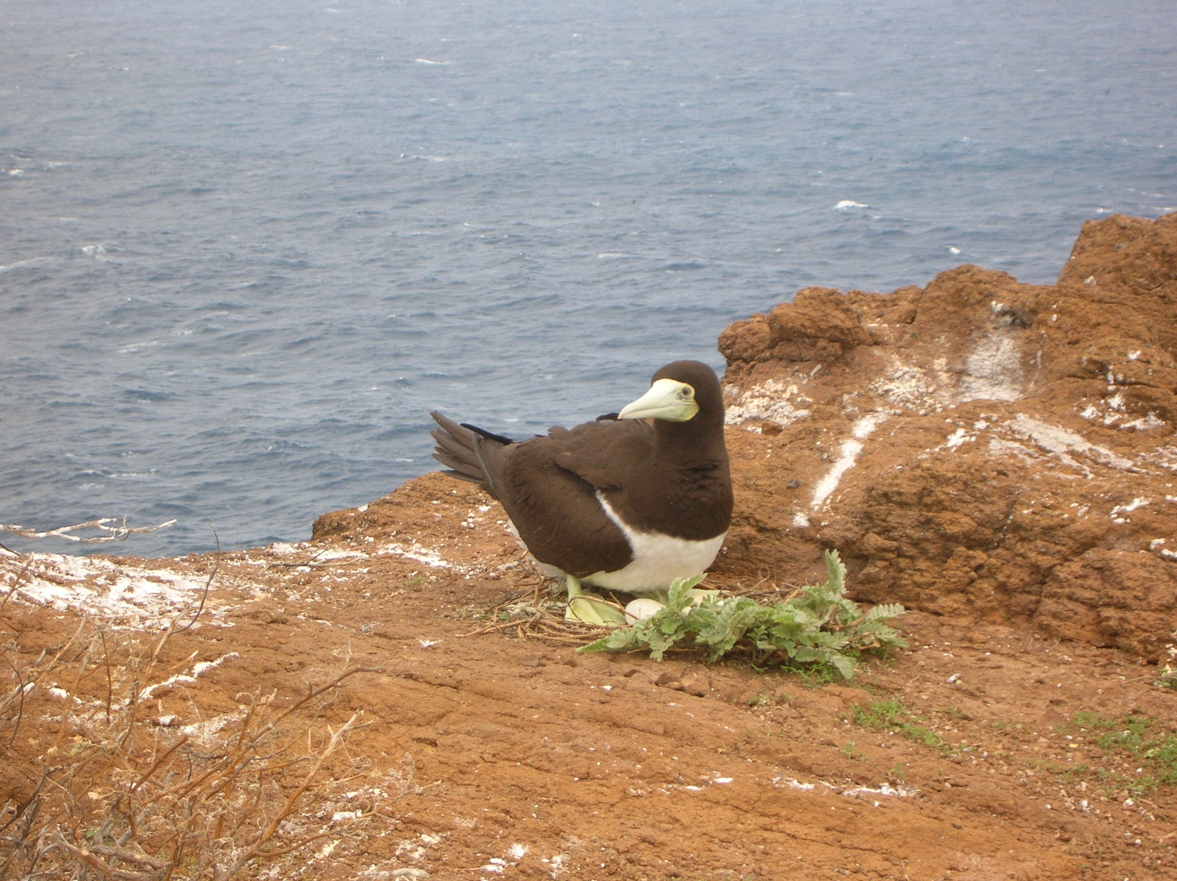 Tribulus cistoides (with brown booby on eggs). Location: Oahu, Moku Manu